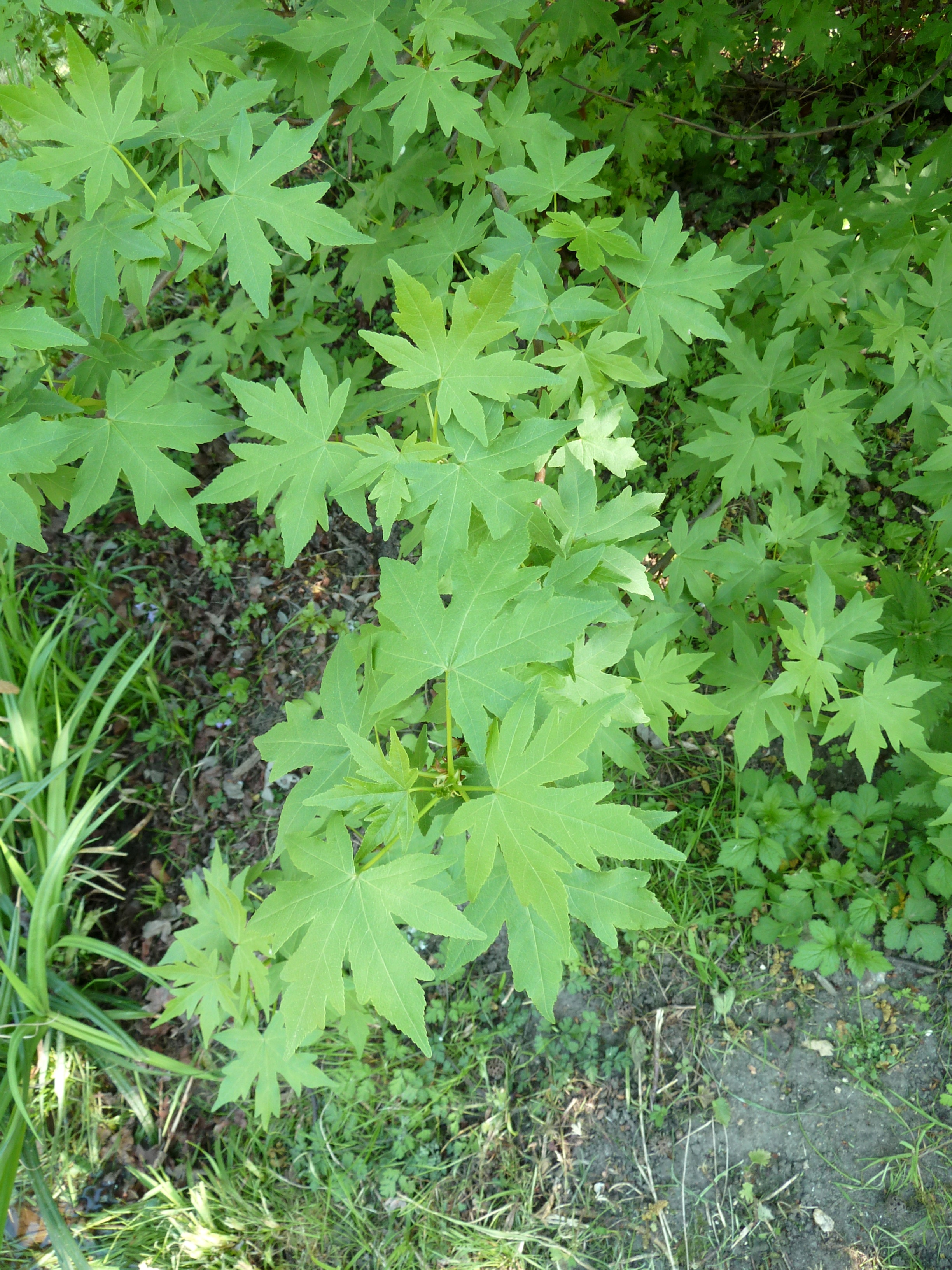 Liquidambar orientalis in Arboretumde l'école du Breuil (Paris, France)